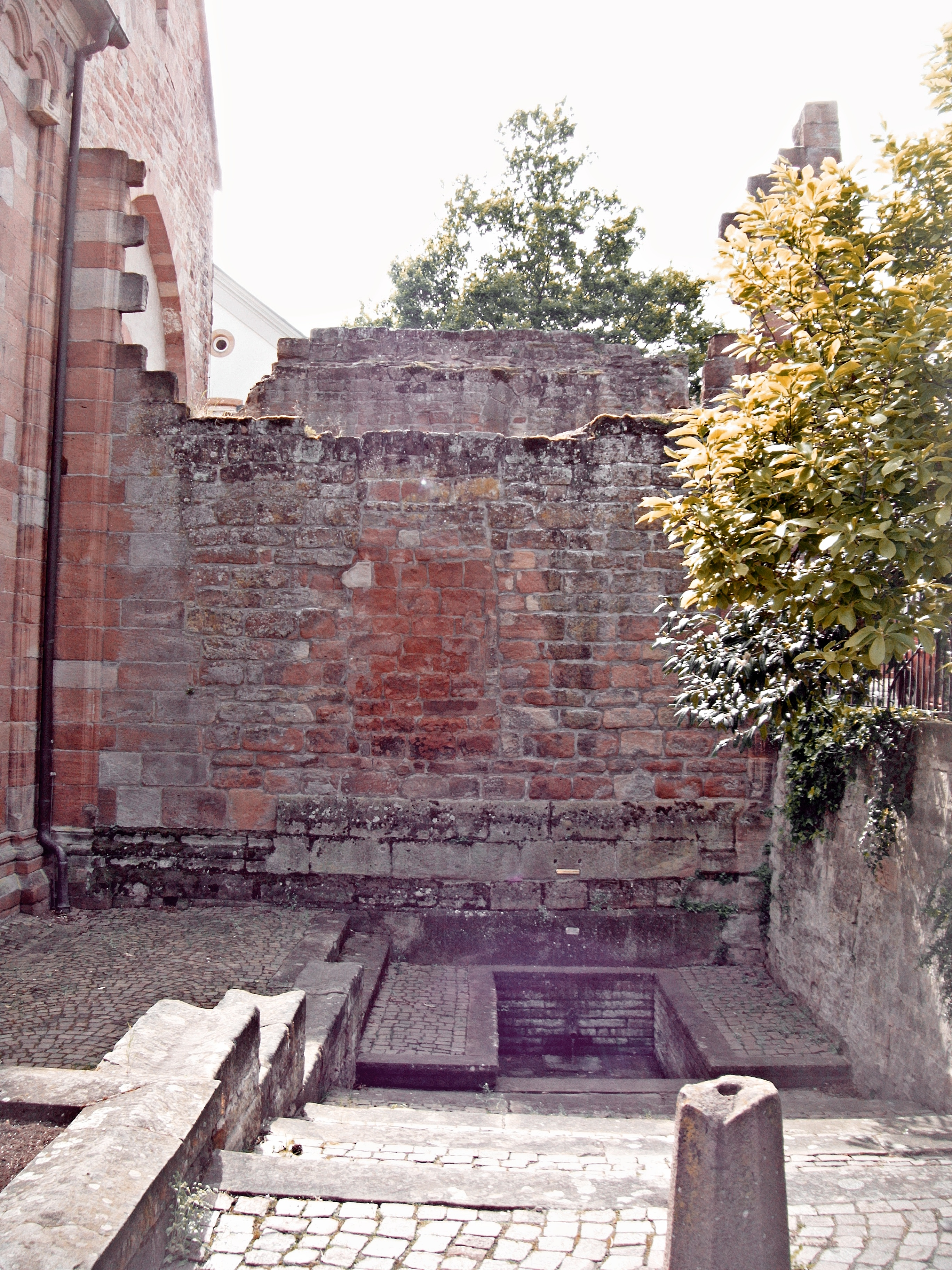 Seebach Klosterkirche Quellenanlage